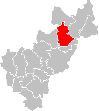 Map showing the municipality of Pinal, State of Queretaro, Mexico